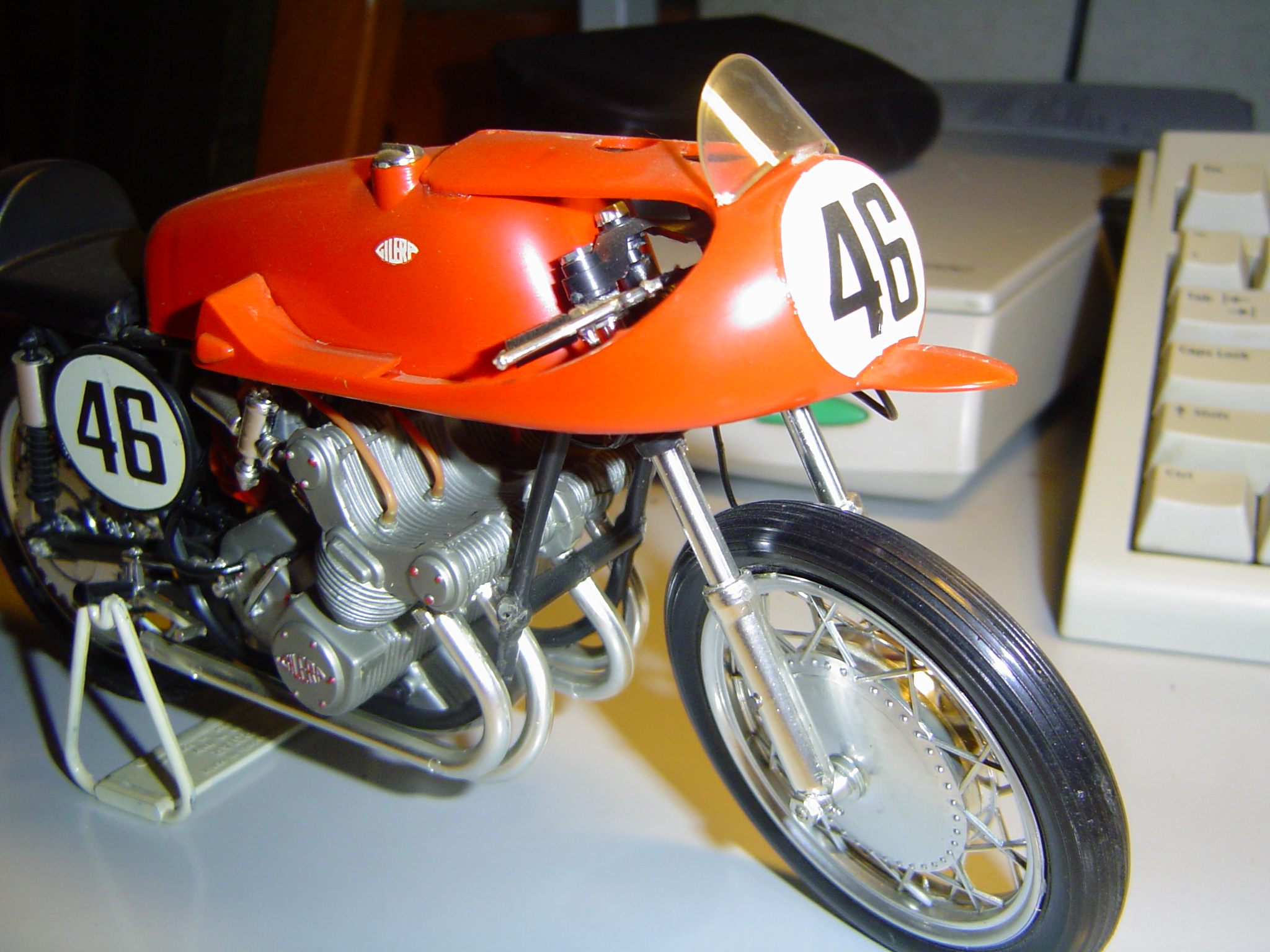 "Birds beak" fairing used by Gilera in the 1950s on slower circuits. The heavy "water-drop" fairing wasn't as fast on the real steering circuits.